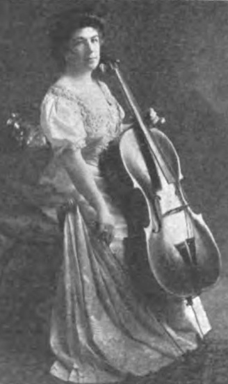 A middle-aged white woman, seated, wearing a gown and holding a cello.